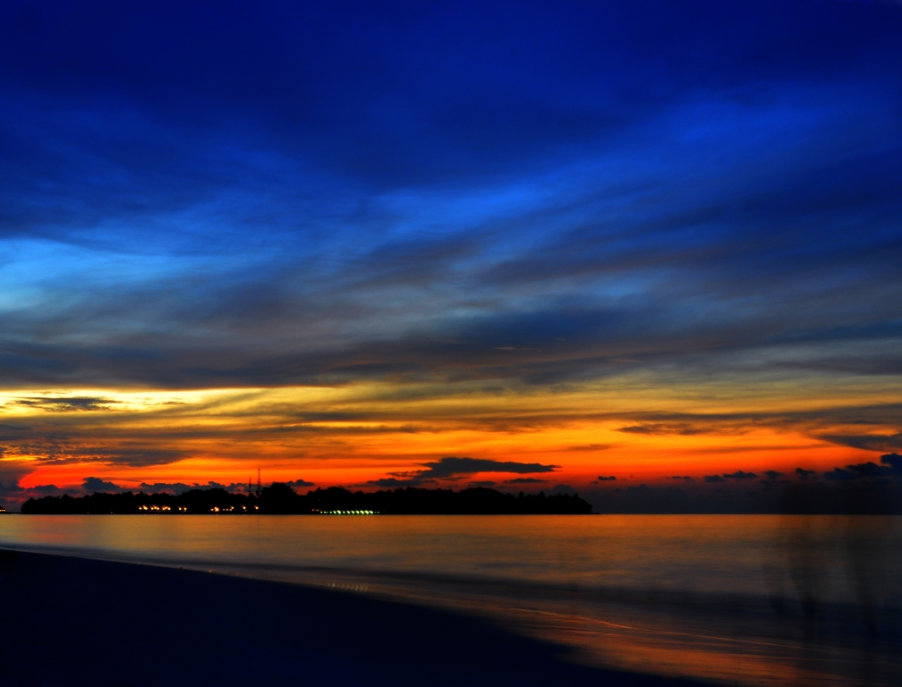 Sunset in the Maldive Islands, officially the Republic of Maldives